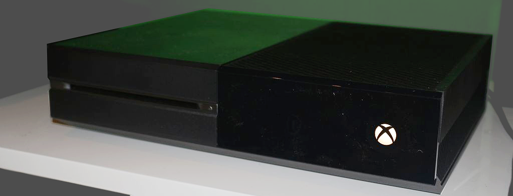 Xbox One